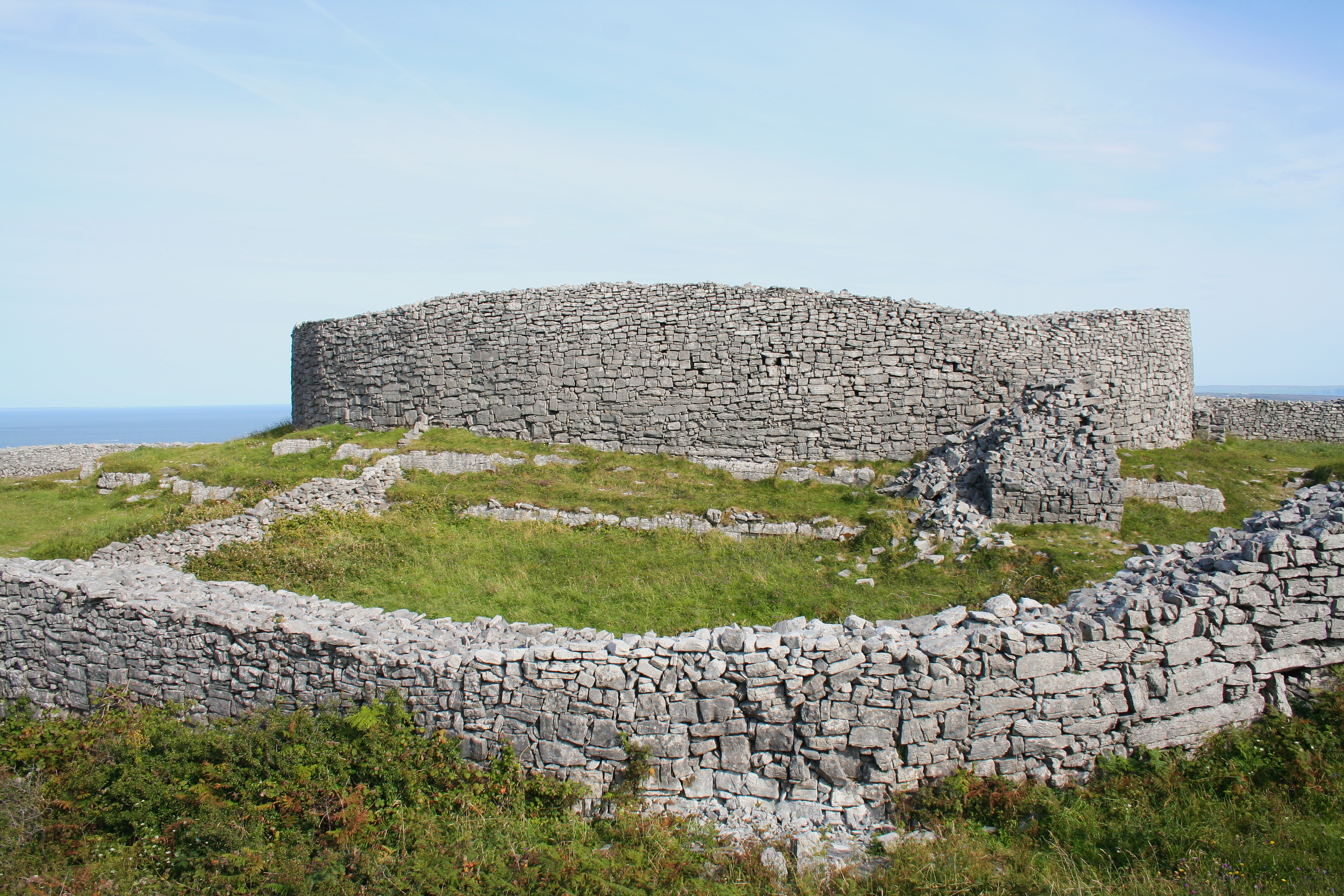 Dún Eochla - Inishmore / Ireland